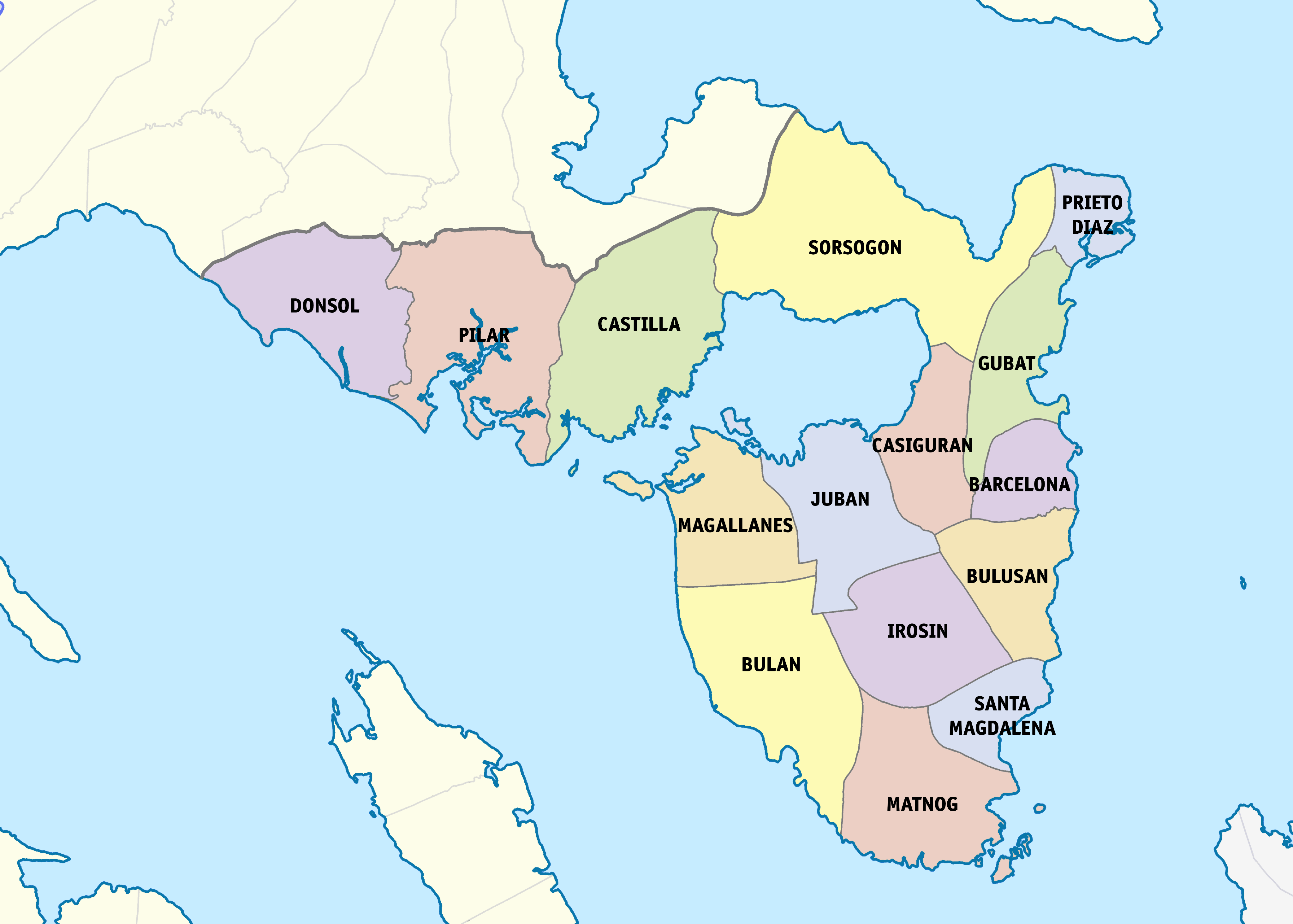 Map showing the municipalities and cities of Sorsogon.